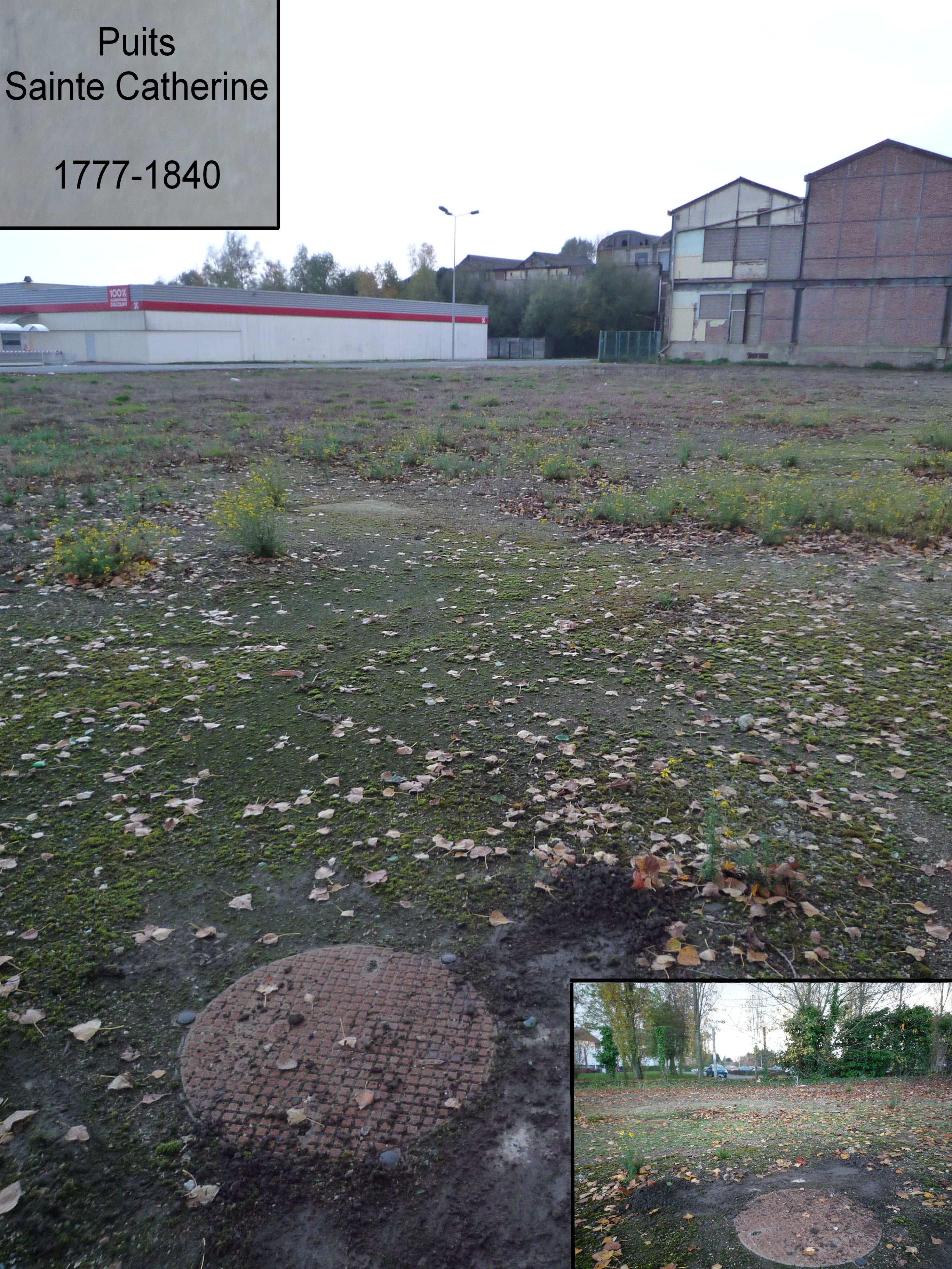 Pit of the Compagnie des mines d'Aniche, France.